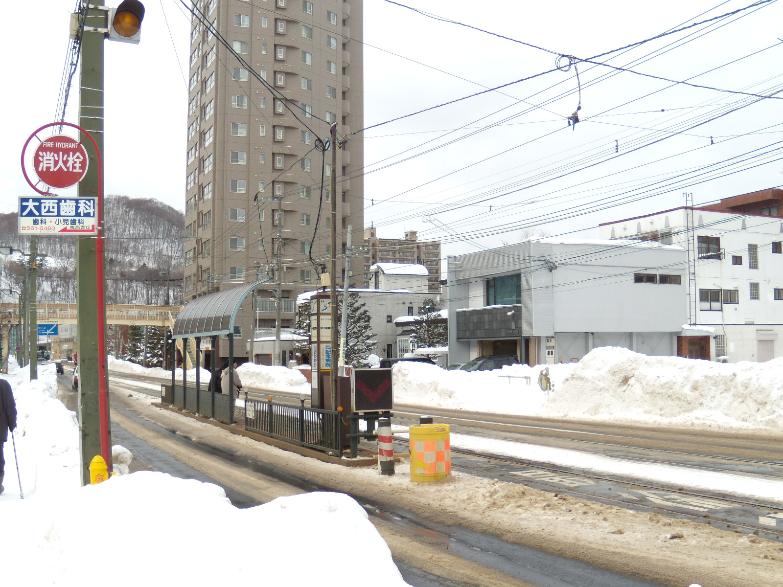 Sapporo city tram Chuo toshokan-mae station for Nishi-4chome.